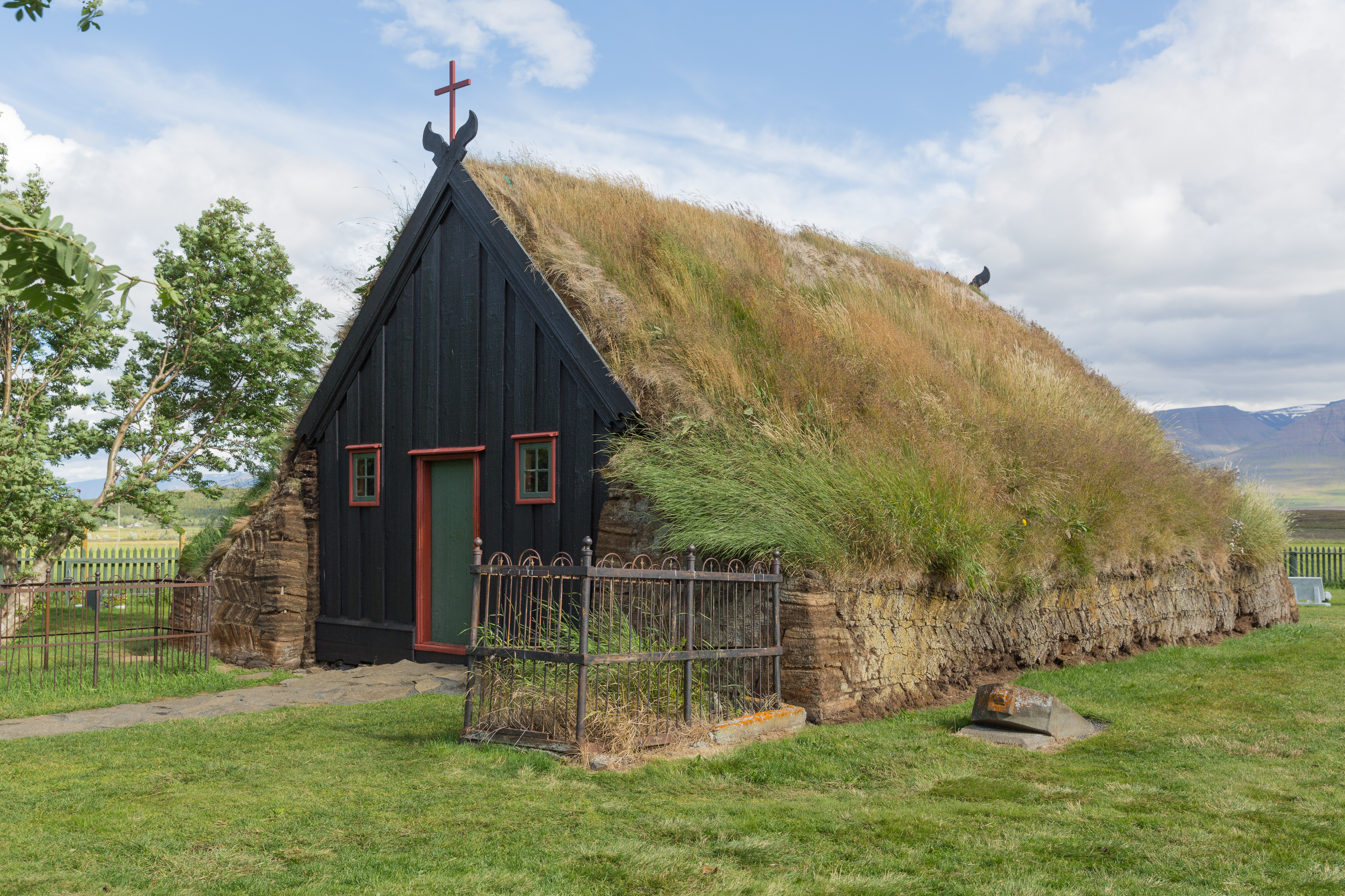 Turf church of Vidimyri